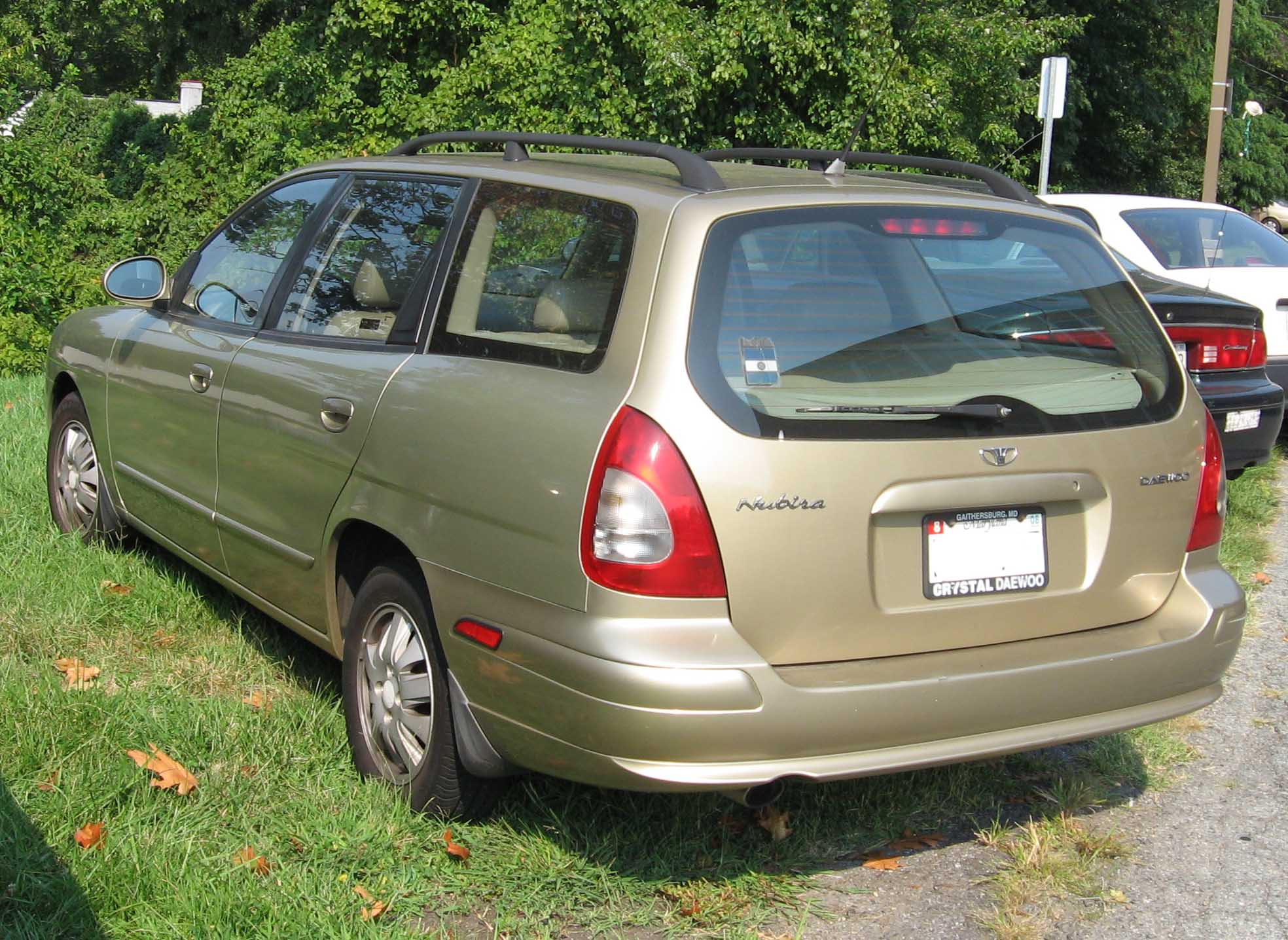 2000-2002 Daewoo Nubira photographed in Silver Spring, Maryland, USA.